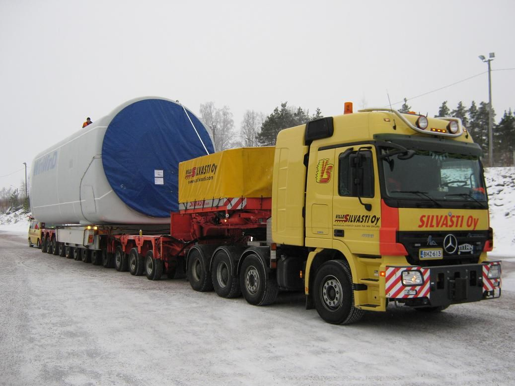 WinWinD wind turbine being transported to Aulepa, Estonia with a truck. Silvasti Oy